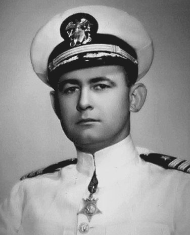 Photo #: NH 106306 Commander Bruce McCandless, USN Halftone reproduction of a photograph, copied from the official publication "Medal of Honor, 1861-1949, The Navy", page 224. Bruce McCandless was awarded the Medal of Honor for "conspicuous gallantry and exceptionally distinguished service" while serving as the Communication Officer on board USS San Francisco (CA-38) during the Naval Battle of Guadalcanal, 12-13 November 1942. U.S. Naval History and Heritage Command Photograph